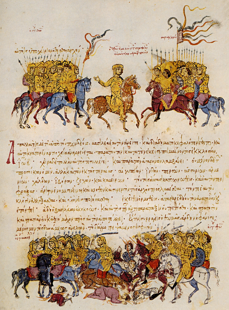 Skyllitzes Matritensis, fol. 31r. Miniatures: Thomas the Slav talks with the Saracens (top) Thomas' troops defeat the imperial army (bottom) References: Ioannis Scylitzae Synopsis Historiarum. Editio Princeps. Rec. Ioannes Thurn, p. 31-32, in: Corpus Fontium Historiae Byzantinae 5 Series Berolinensis, 1973 Tsamakda V.: The illustrated chronicle of Ioannes Skylitzes in Madrid, p. 71 Grabar A., Manoussacas M.: L'illustration du manuscript de Skylitzes de Madrid, p. 33